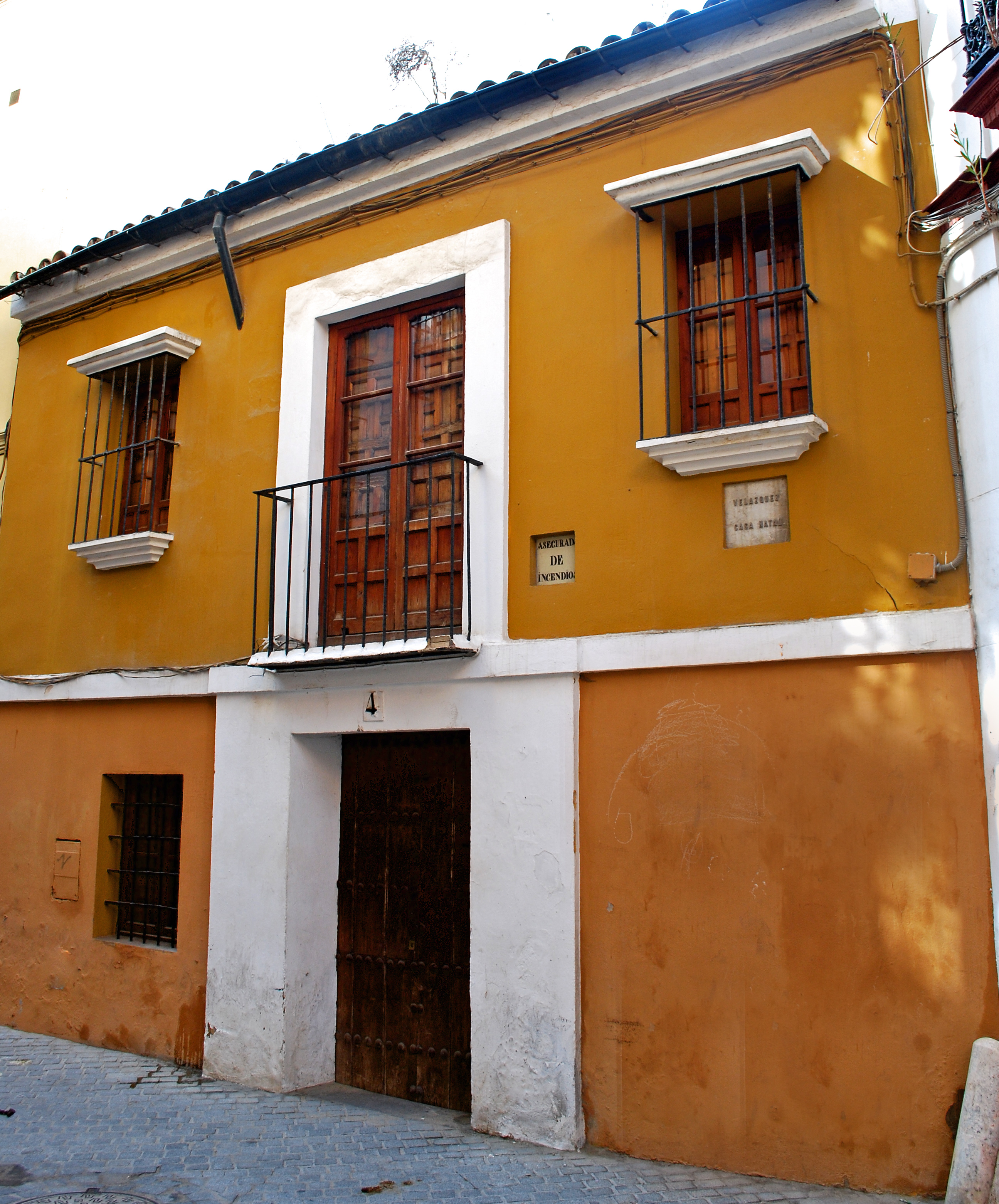 Birthplace of Velazquez in Seville